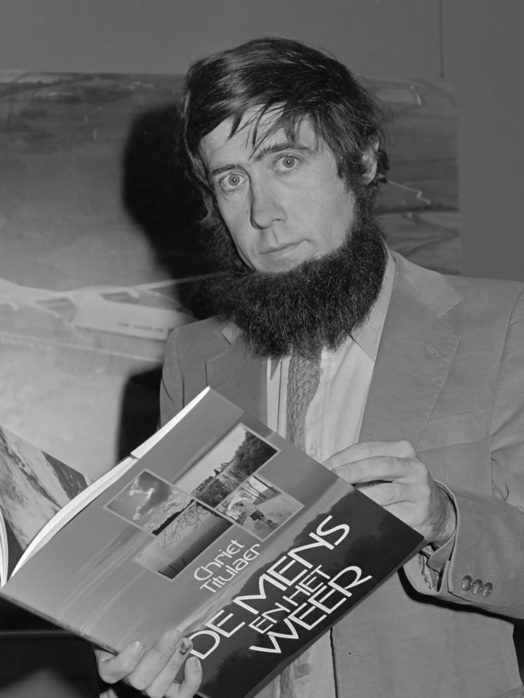 Presentatie "De mens en het weer" van Chriet Titulaer 21 februari 1979